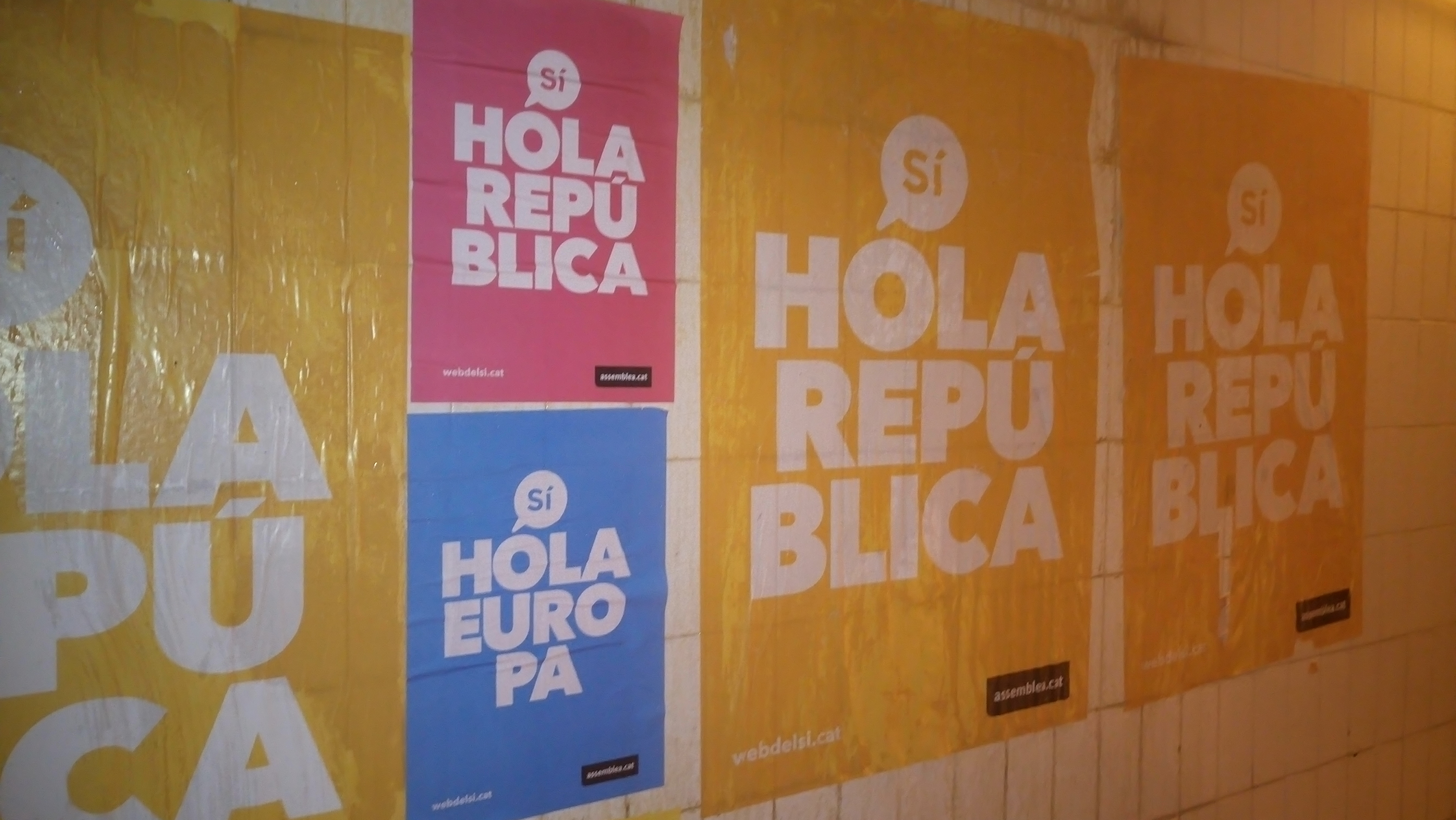 Encartellada a Terrassa i Les Fonts